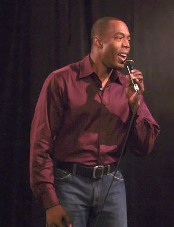 A photo of Michael McElroy performing a song from the musical Rent.